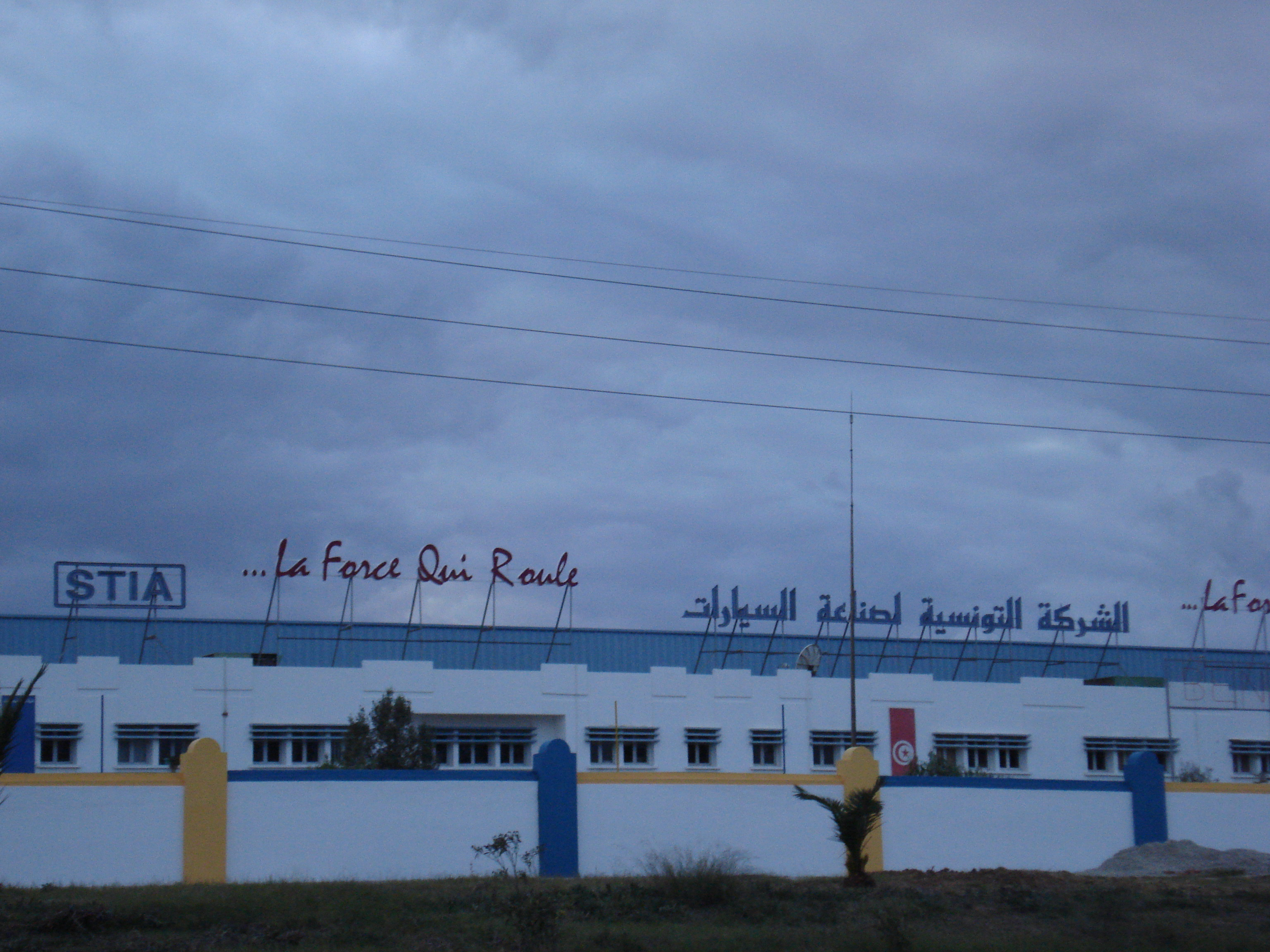 Usine STIA à Sousse, Tunisie.